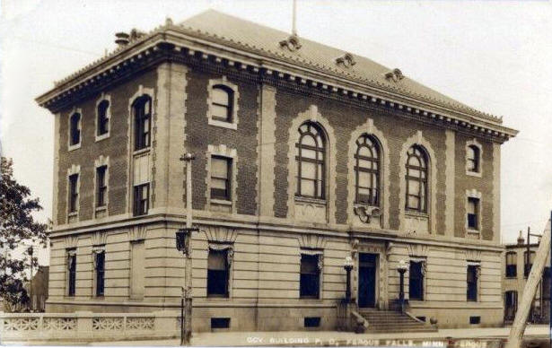 United States Post Office and Courthouse, Fergus Falls, Minnesota, United States